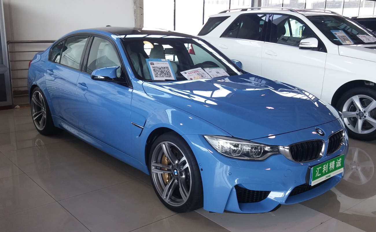 BMW M3 F80 photographed in Beijing, China.